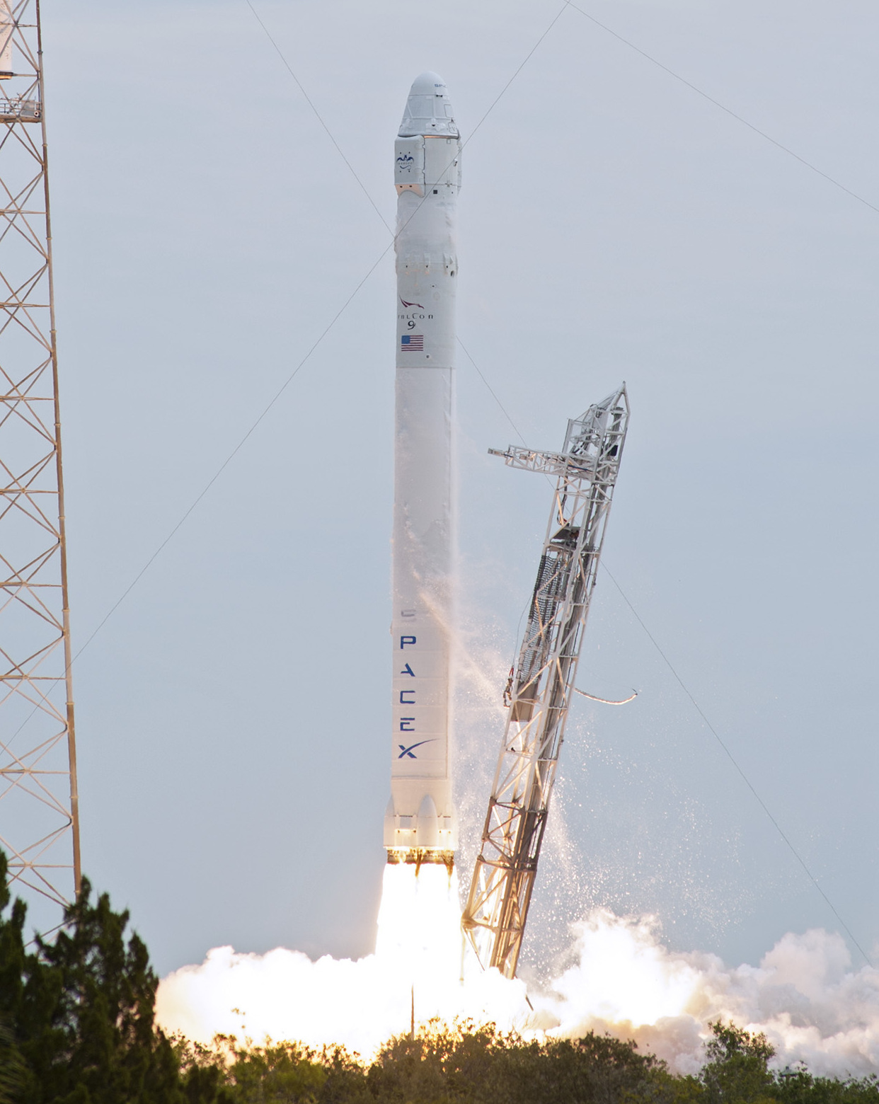 CAPE CANAVERAL, Fla. -- A Space Exploration Technologies, or SpaceX, Falcon 9 rocket lifts off Space Launch Complex 40 on Cape Canaveral Air Force Station in Florida at 10:10 a.m. EST, carrying a Dragon capsule filled with cargo. The SpaceX Dragon capsule is making its third trip to the International Space Station, following a demonstration flight in May 2012 and the first resupply mission in October 2012. The SpaceX-2 mission is the second of 12 SpaceX flights contracted by NASA to resupply the orbiting laboratory.